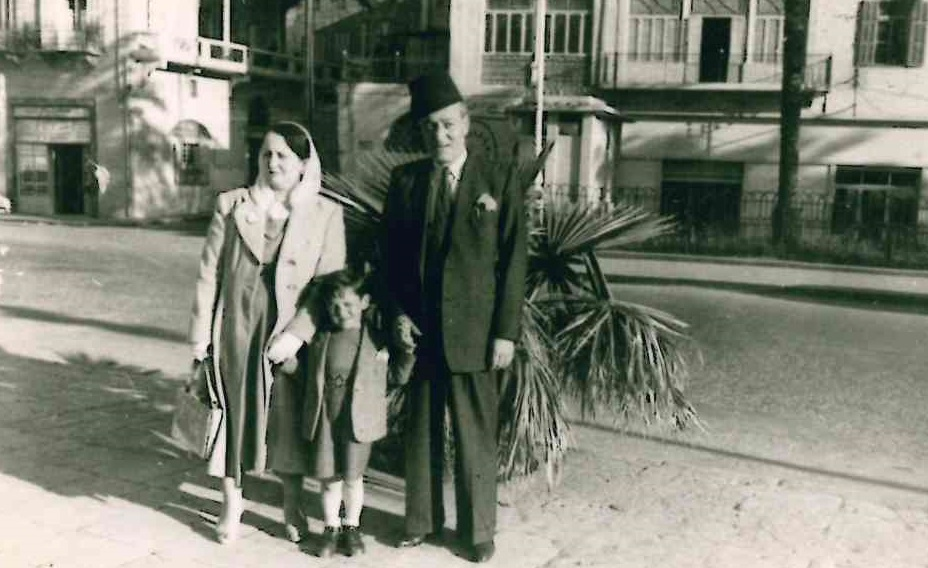 Dr Mahdi Abdul Hadi with his parents - Fouad Abdul Hadi and Shahira Nabulsi (15th May 1949)